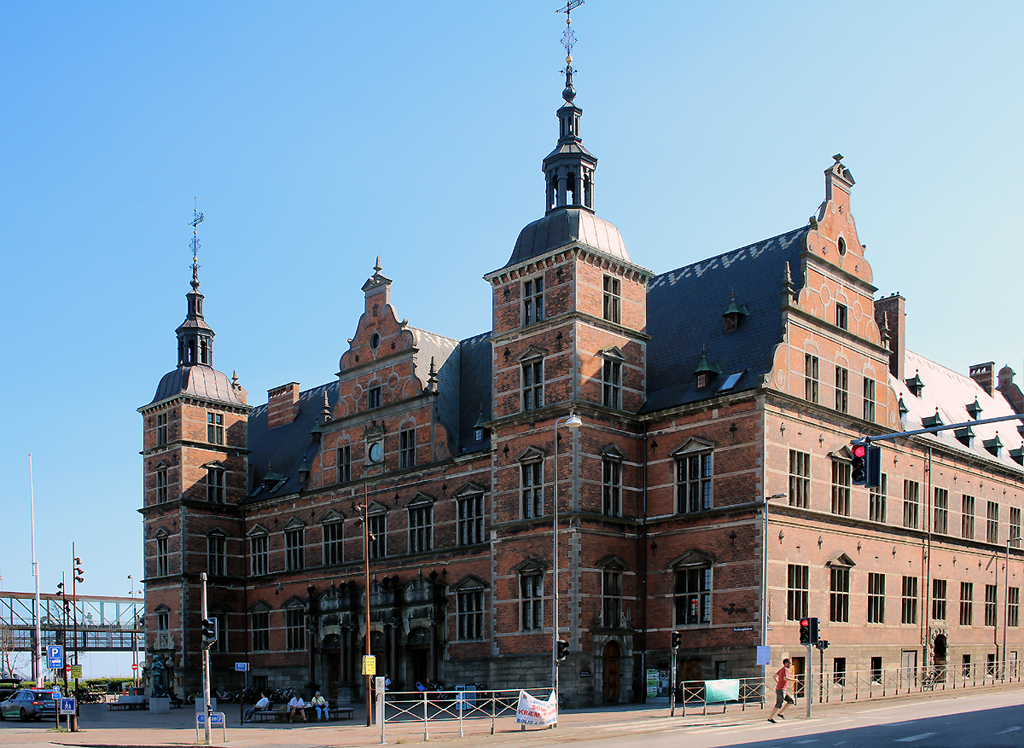 Helsingor Railway Station (Denmark)